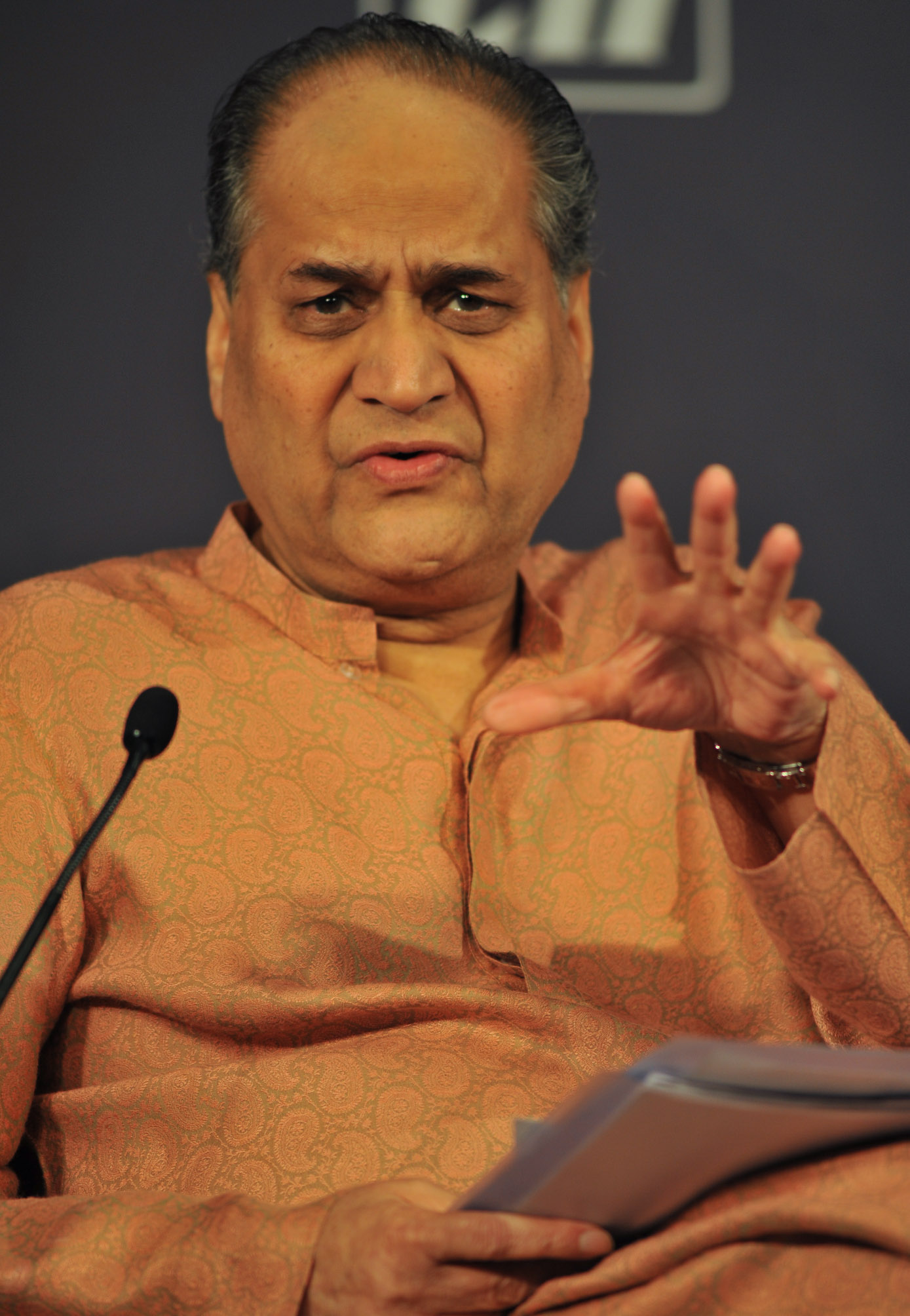 NEW DELHI/INDIA, 10NOV09 - Rahul Bajaj in the Global Redesign Session. Participants captured during the World Economic Forum's India Economic Summit 2009 held in New Delhi, 8-10 November 2009. Copyright (cc-by-sa) © World Economic Forum/Photo Eric Miller